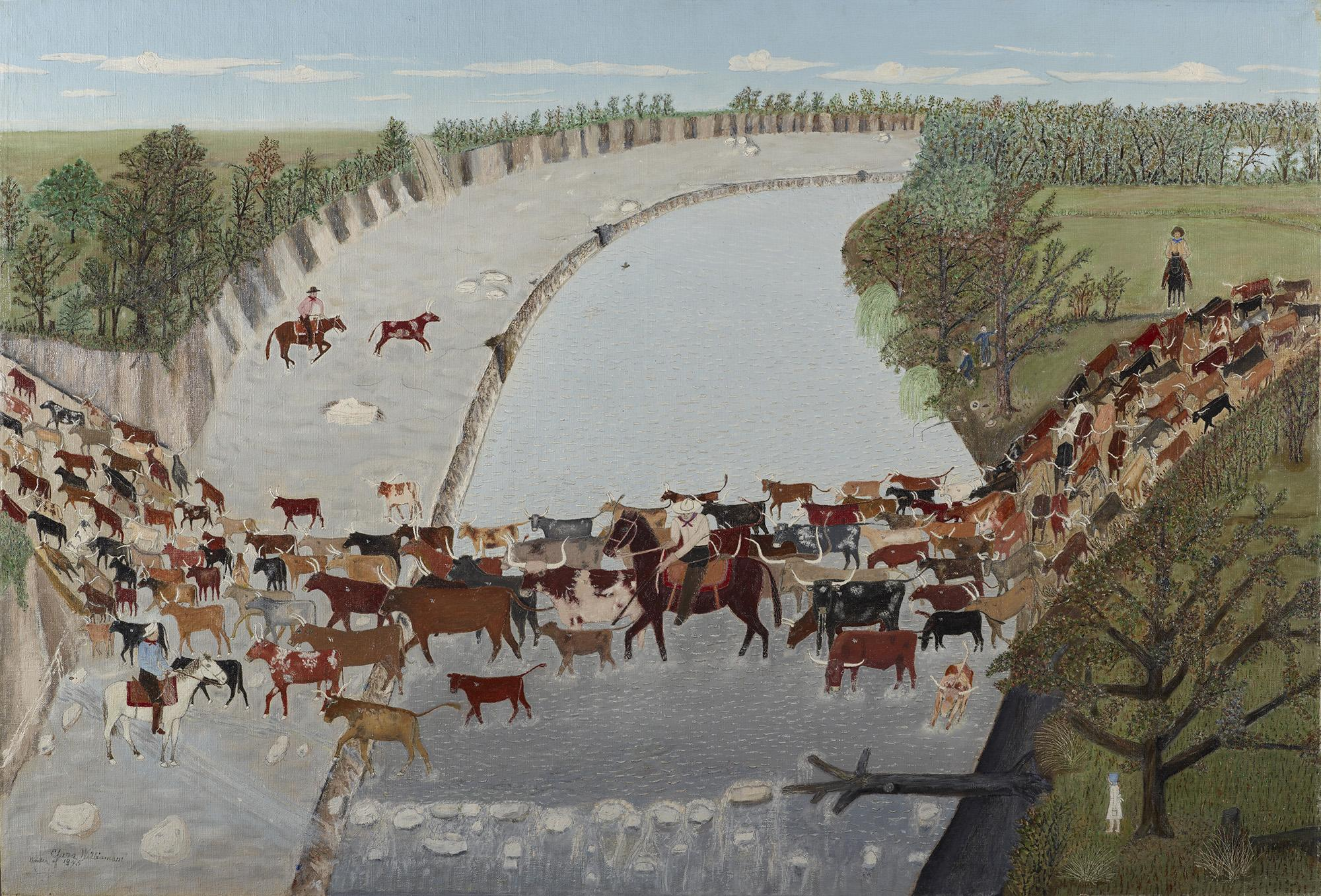 Get Along Little Dogies